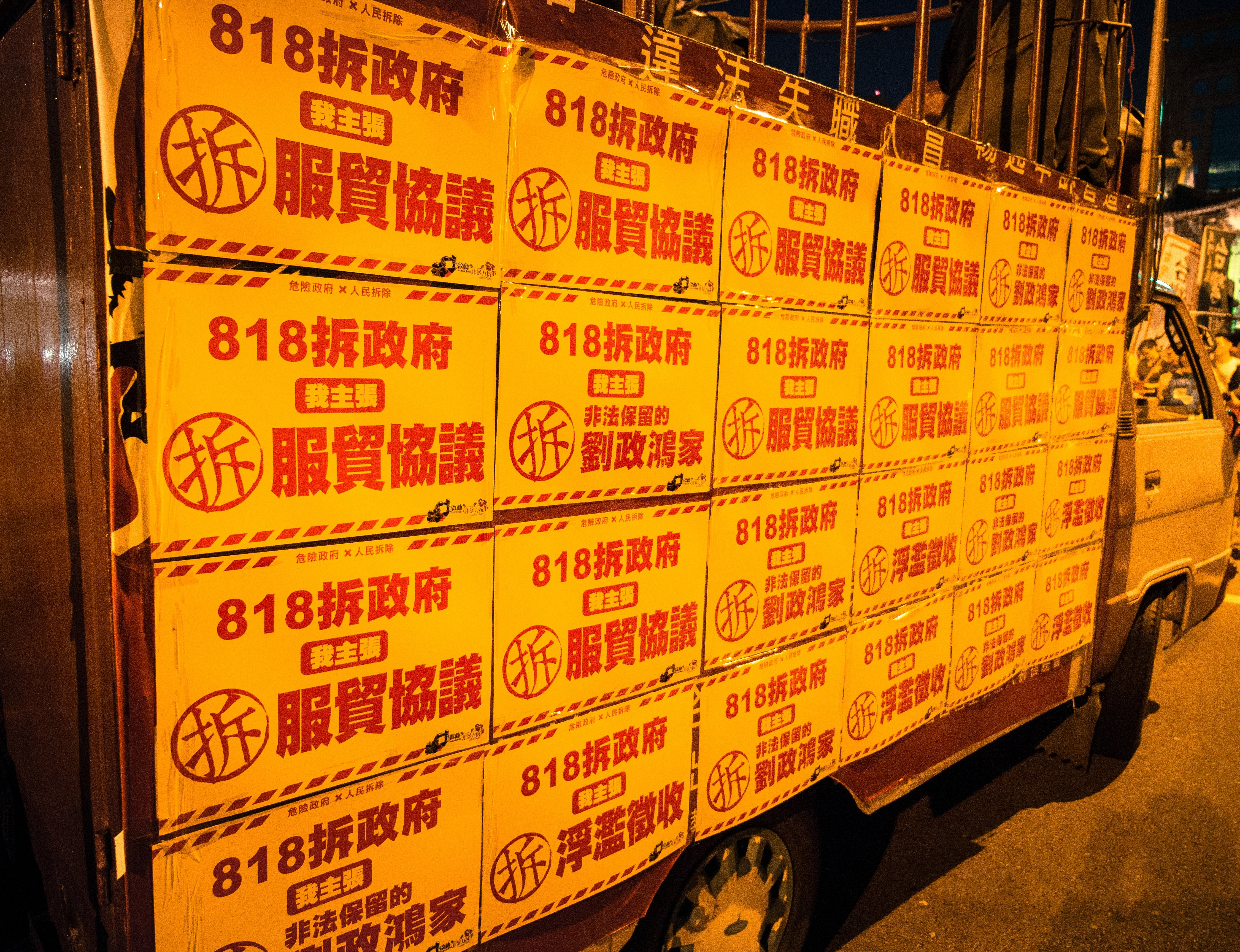 2013/8/18 Protest